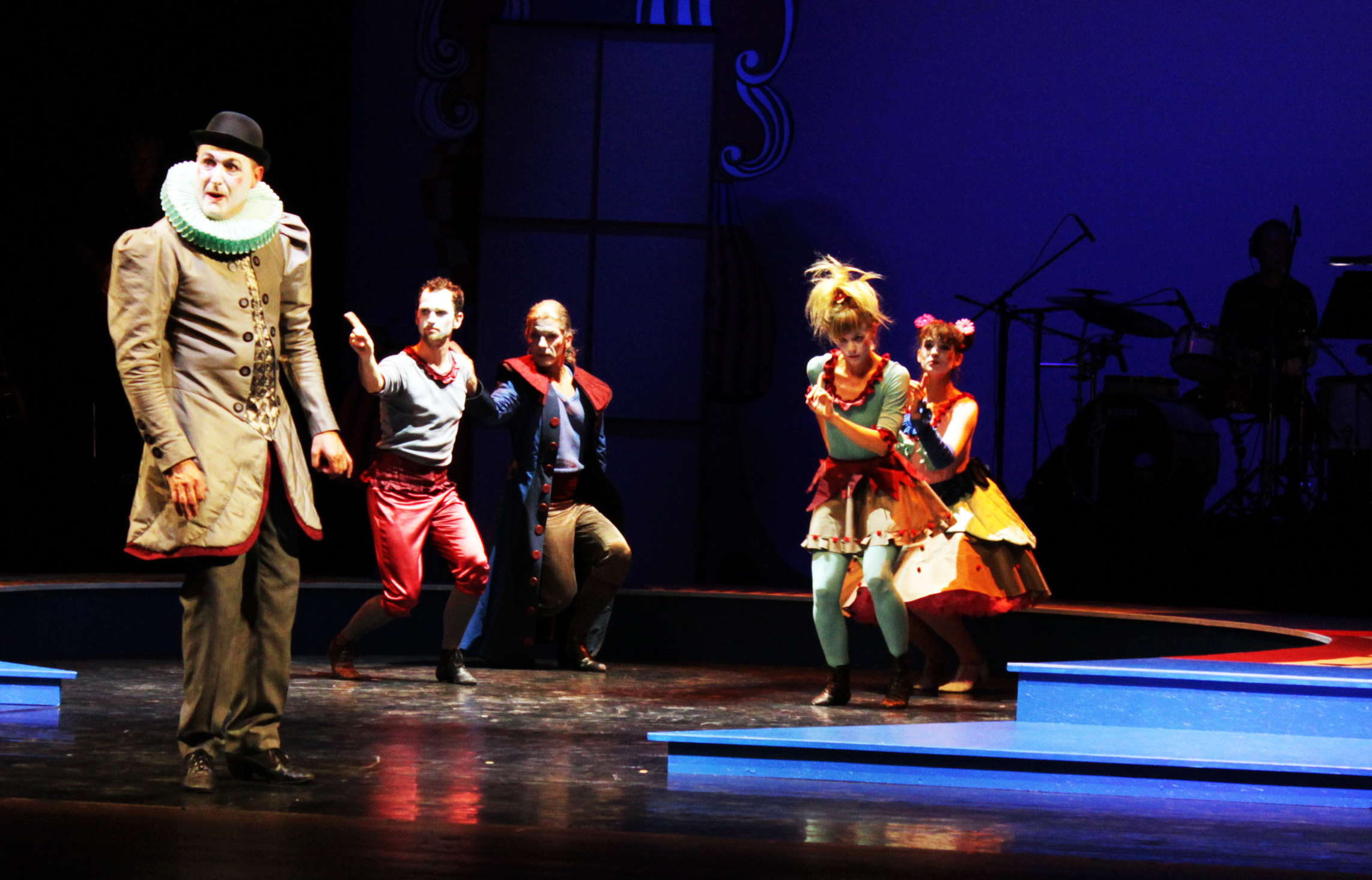 The ensemble of Brandenburgian event-theatre plays it's own production "Friedrich Rex Superstar - an apocalyptic celebration", 2012 June 6th on the stage of teh Brandenburger Theater.